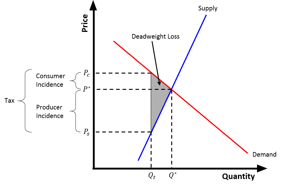 A graph of a tax wedge with an inelastic supply curve. This graph demonstrates that in this case, the producer will bear more of the tax.